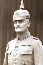 Major General Rudolf von Borries, (1863-1932)